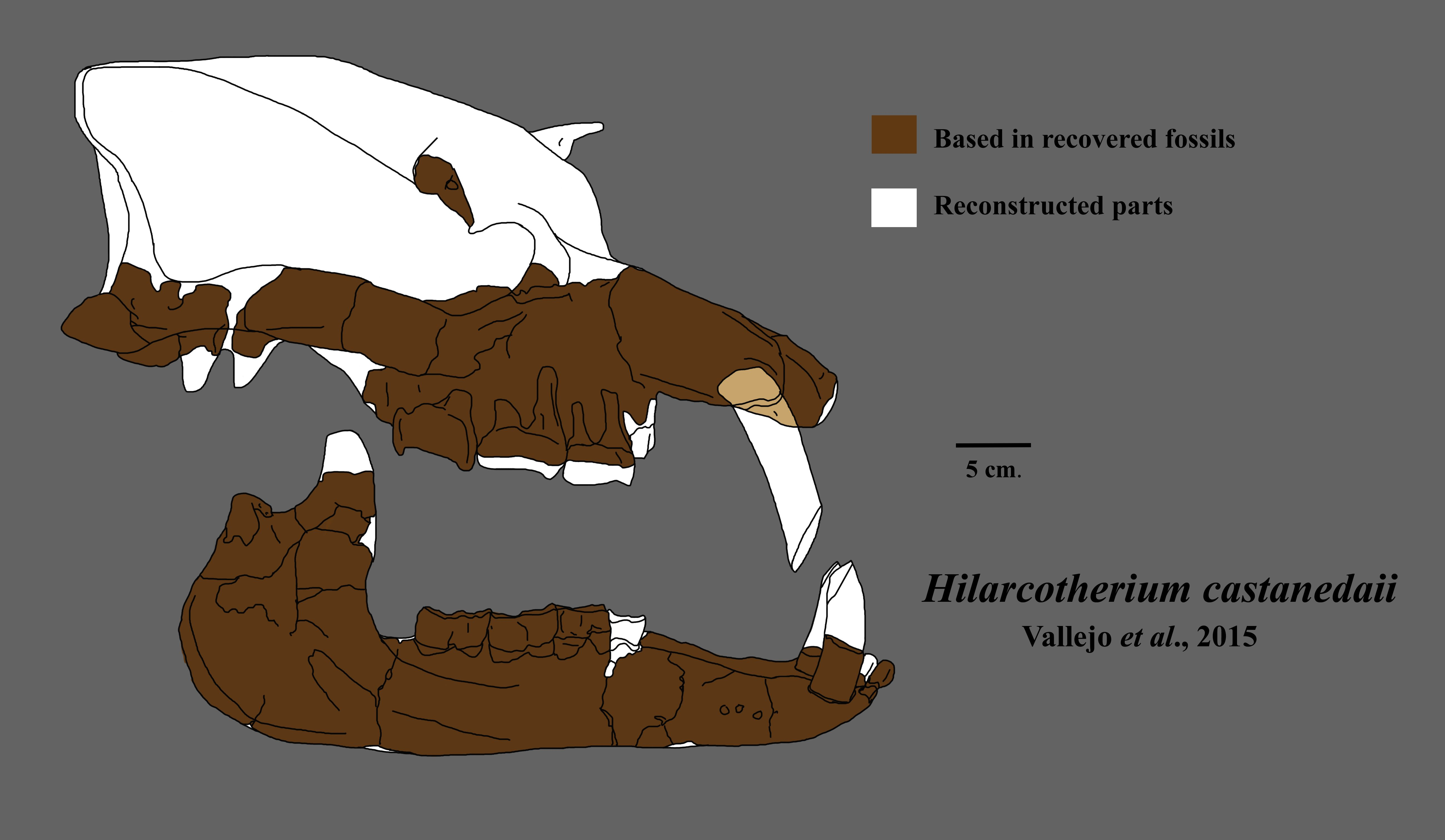 Diagram of the skull of the astrapotherid Hilarcotherium castanedaii, from the Middle Miocen of Colombia. The brown parts represents the original fossils of the holotype specimen; the white ones are reconstructed from its relatives. Original image is in